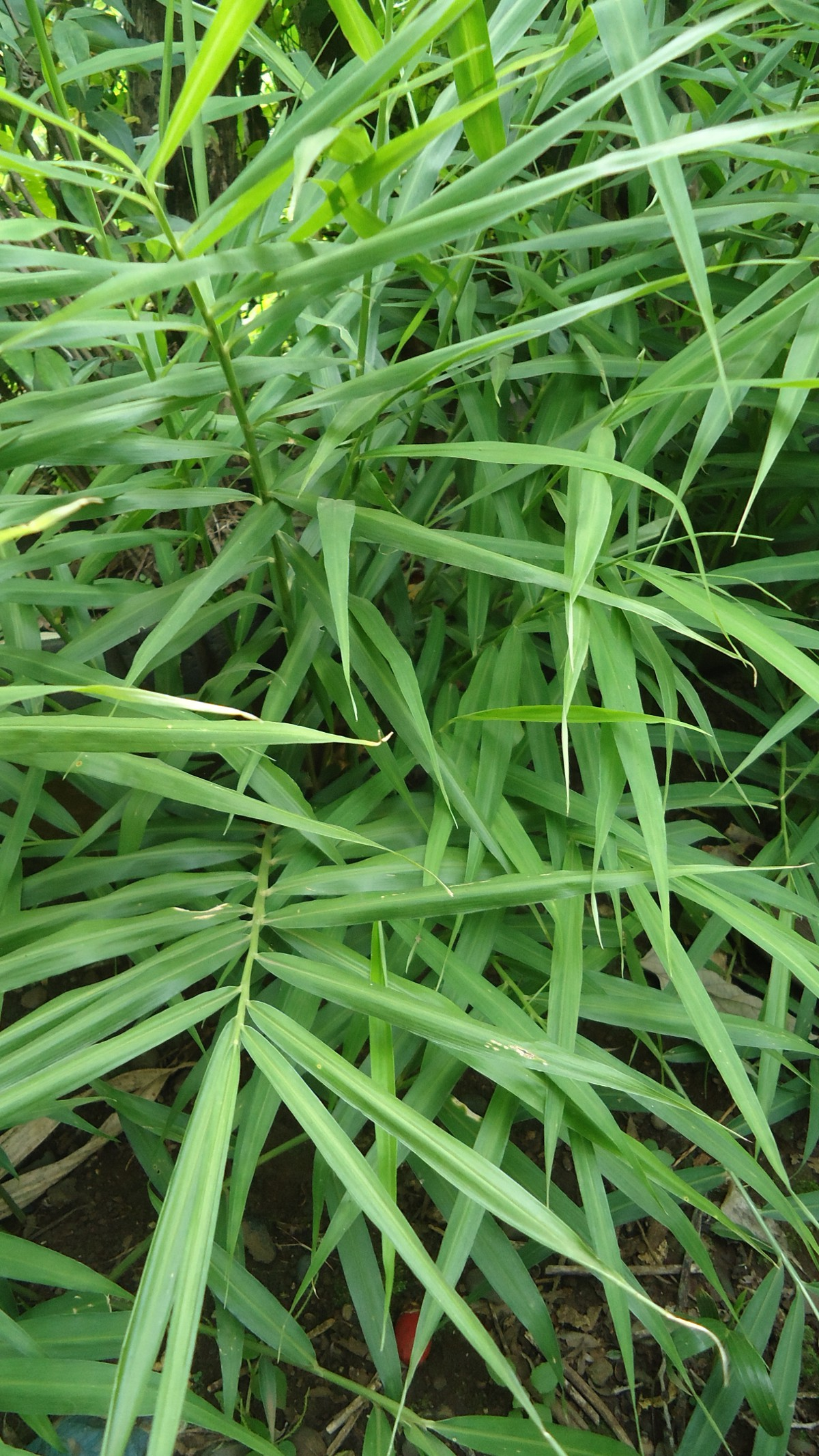 Zingiber officinale (ginger, local name luy-a), from Mindanao, Philippines